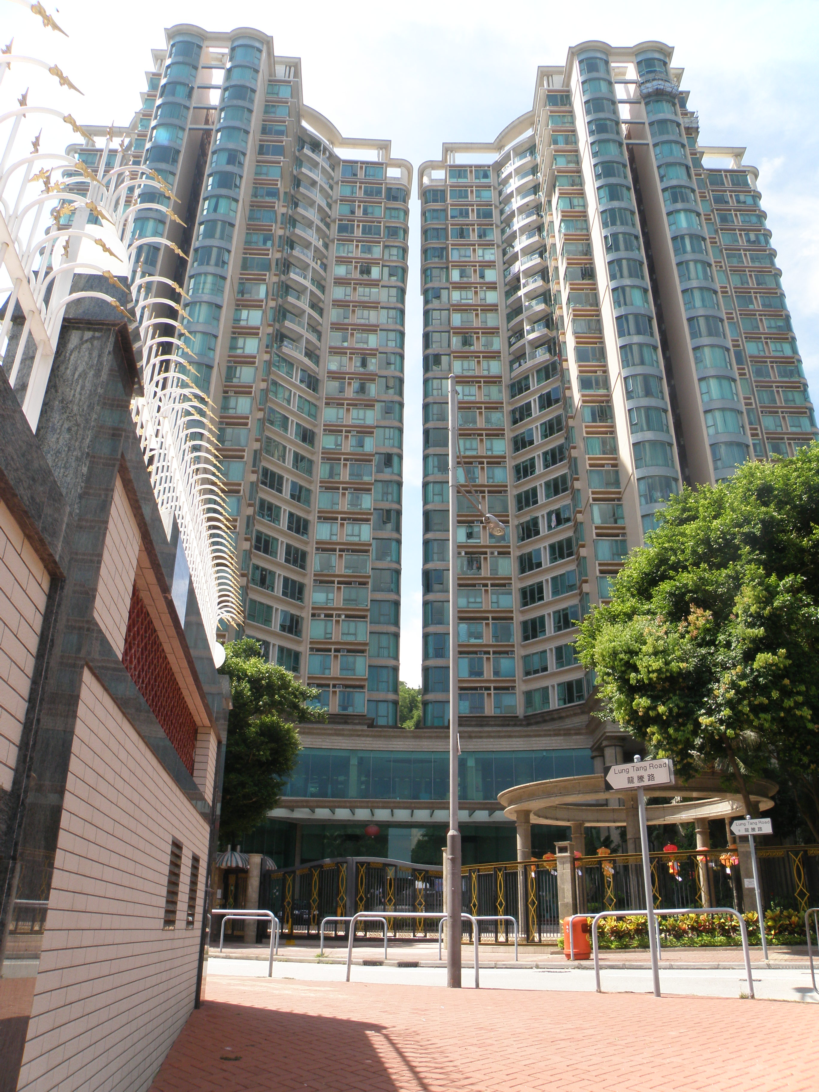 Phase 5 of Sea Crest Villa, Tsing Lung Tau, Hong Kong.